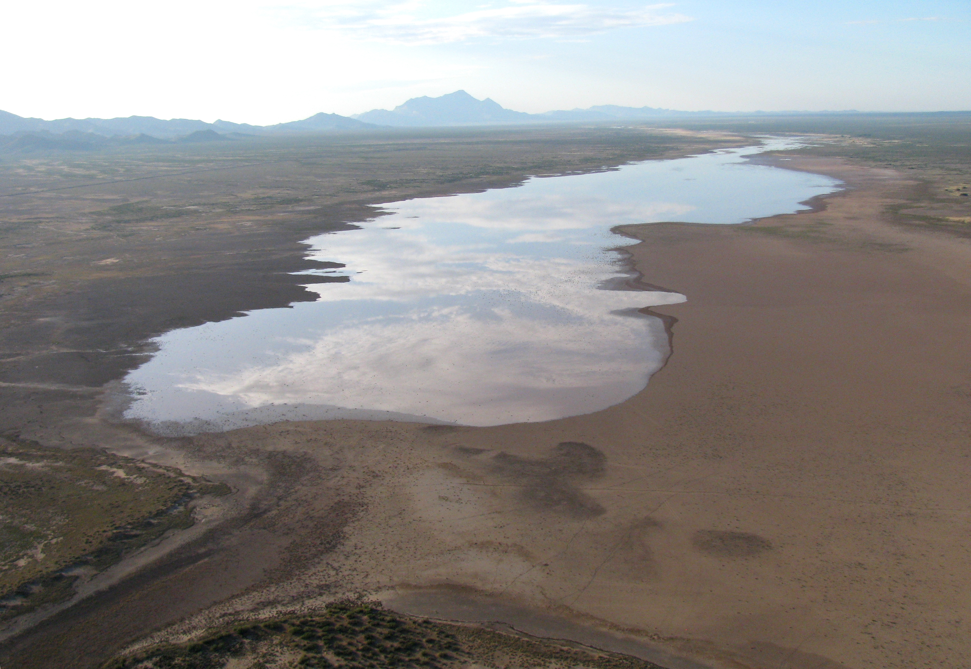 An aerial view of the normally dry Playas lake in Playas Valley New Mexico, but during the monsoon season it frequently fills with water.